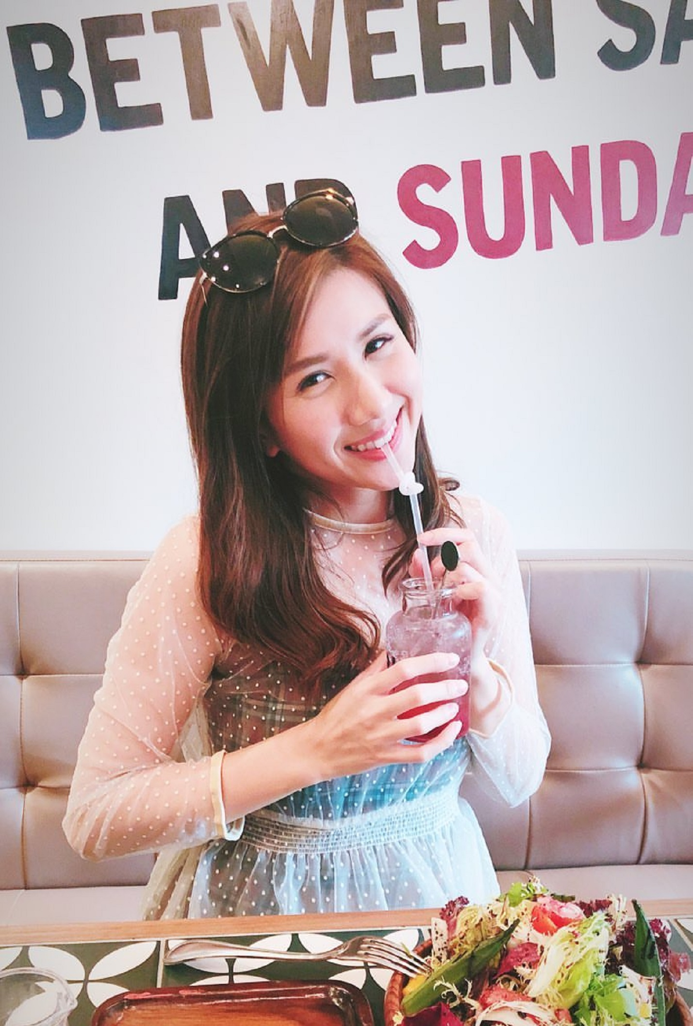 Chloe Nguyen was interviewed by the mina magazine ( Hong Kong )